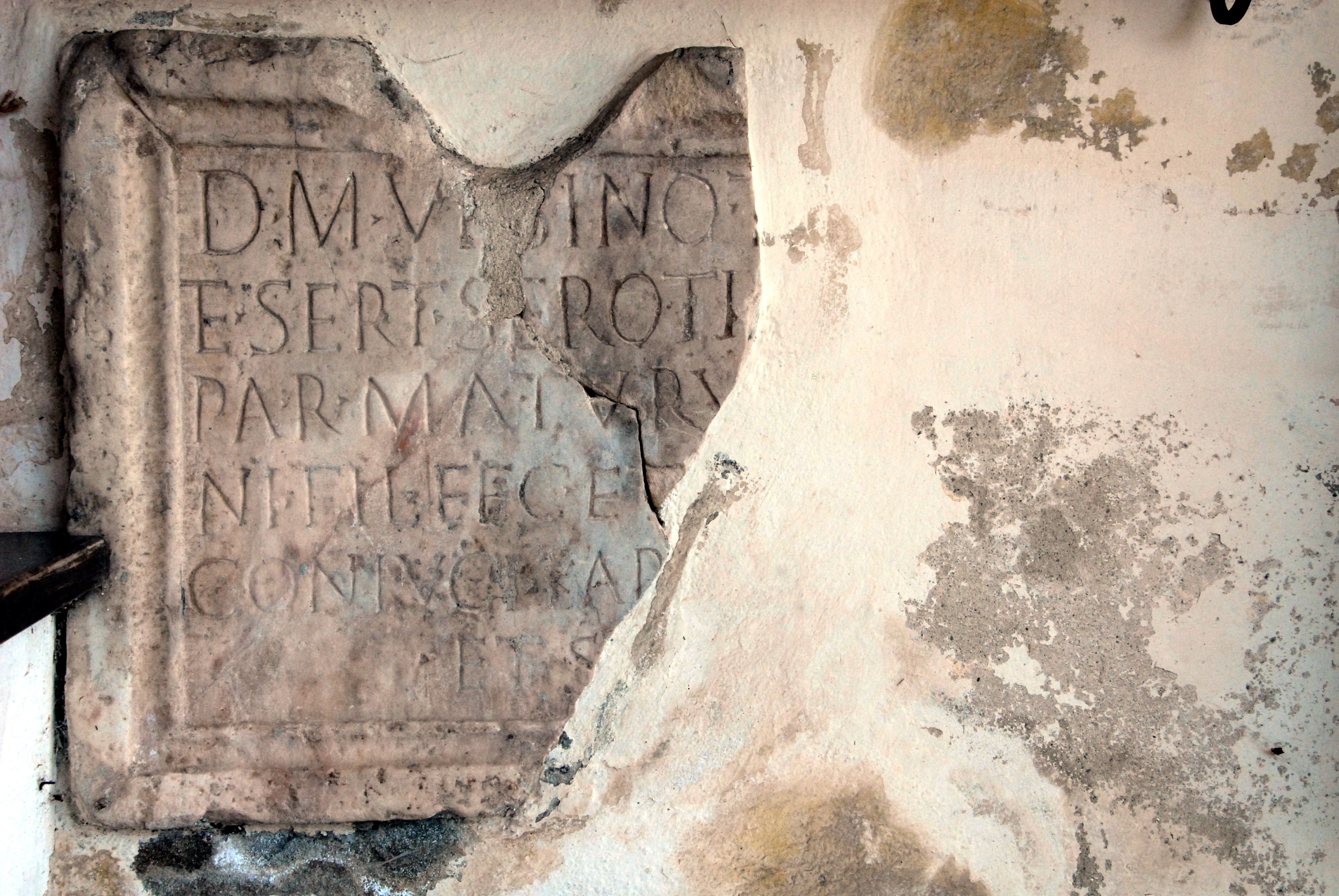 Fragment of a roman grave inscription stone (ILLPRON 0454) from Techelsberg marble in the porch of the parish church in Saint Martin, municipality Techelsberg, district Klagenfurt Land, Carinthia, Austria, EU